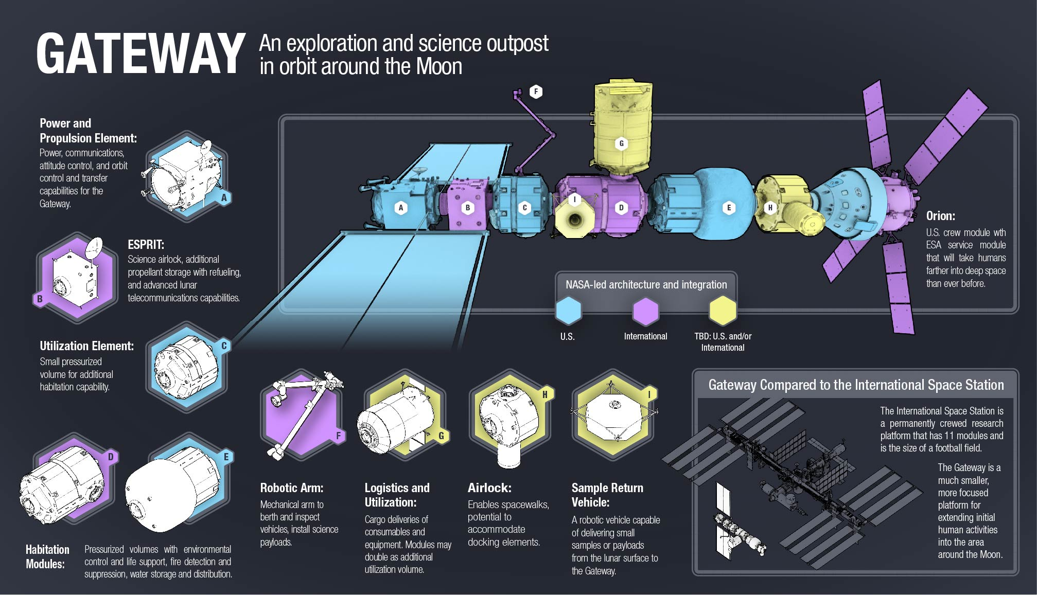 The Gateway will serve as an all-in-one solar-powered communications hub, science laboratory, short-term habitation module, and holding area for rovers and other robots.